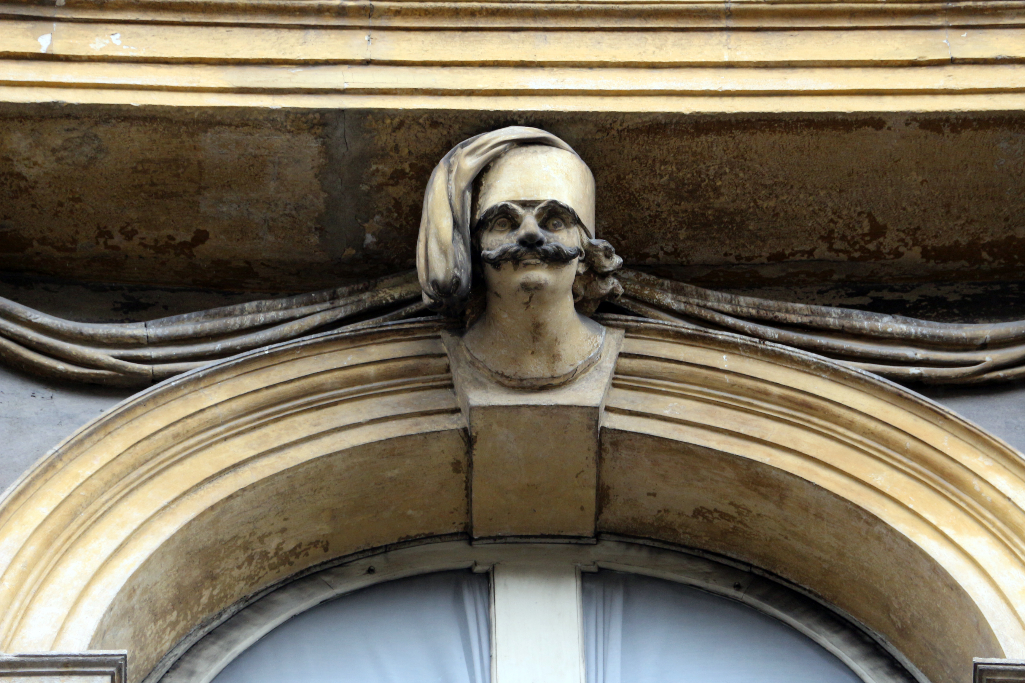 Bergamo